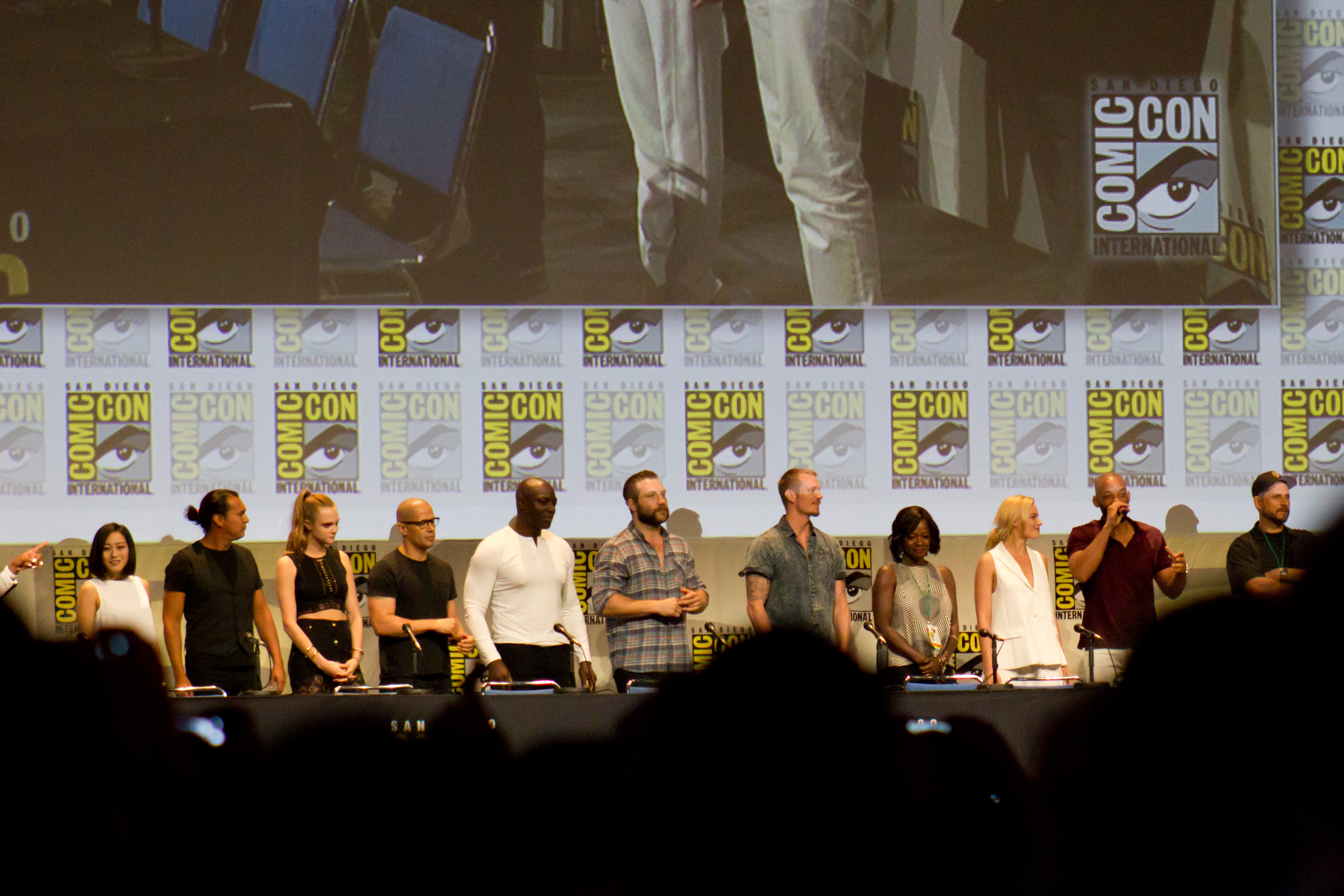 Suicide Squad Taken at the 2015 Comic-Con International in San Diego.